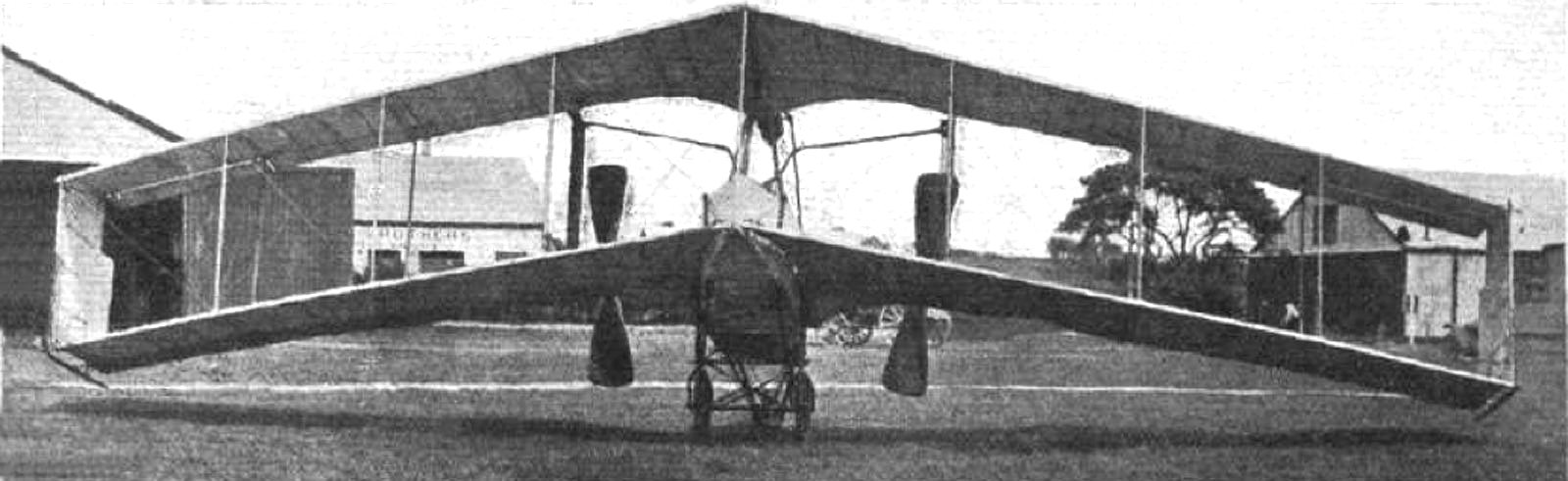 The Dunne D.5 biplane from the front, showing the machine’s natural position on the ground. Source: Flight, June 18, 1910. Image believed to be scanned from "Flight" magazine published in June 18, 1910.